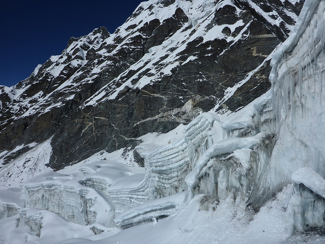 Amphu Labtsa pass 8845m by Vijay Jeyanthan Oct 2014. Nepal Khumbu region, Honku valley.